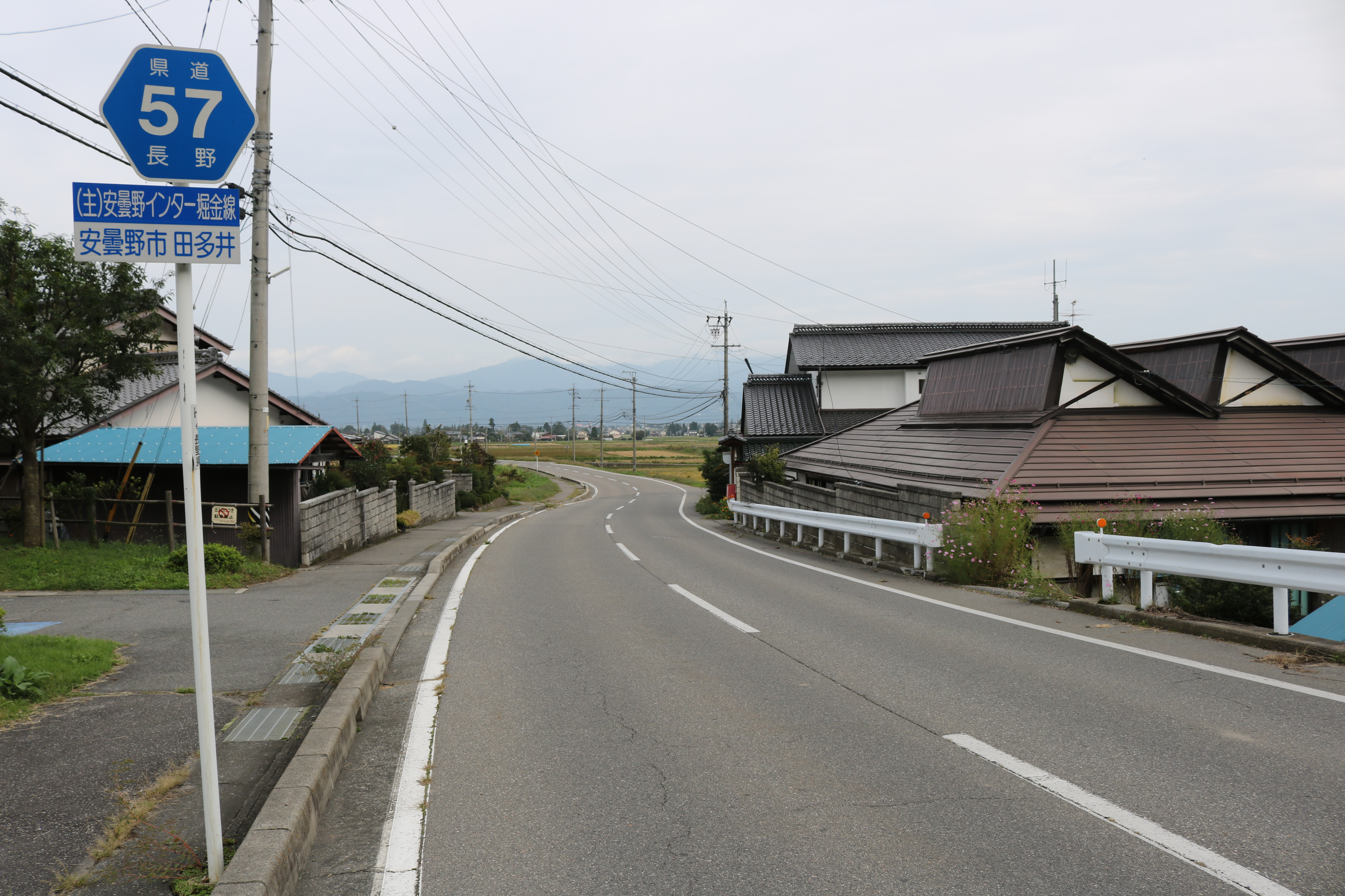 Nagano Prefectural Road Route 57 in Tatai, Horiganemita, Azumino, Nagao prefecture, Japan.